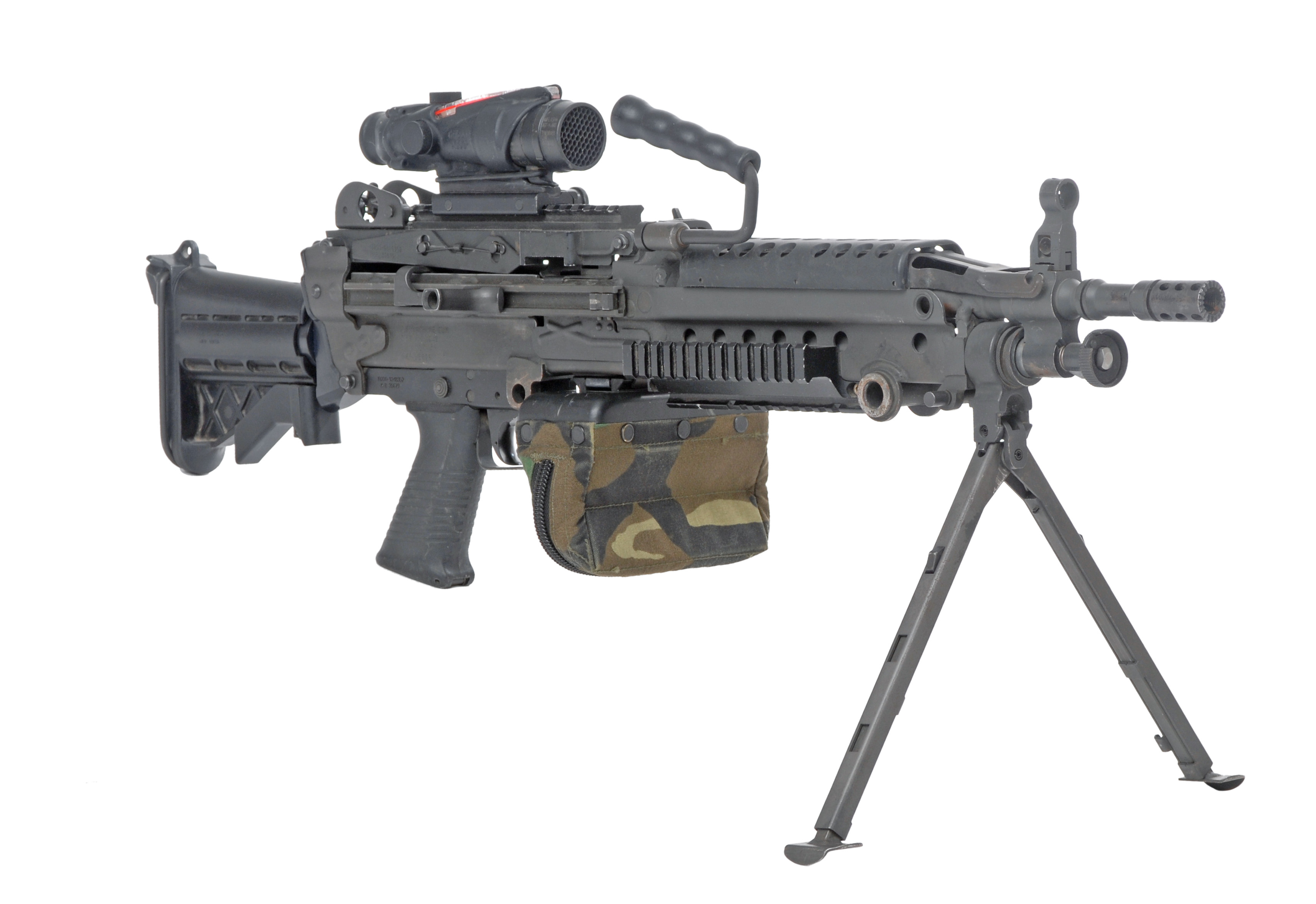 The M249 Squad Automatic Weapon (SAW) fills the automatic rifle role in infantry squads and provides light machine gun capabilities in combat service and combat service support units.